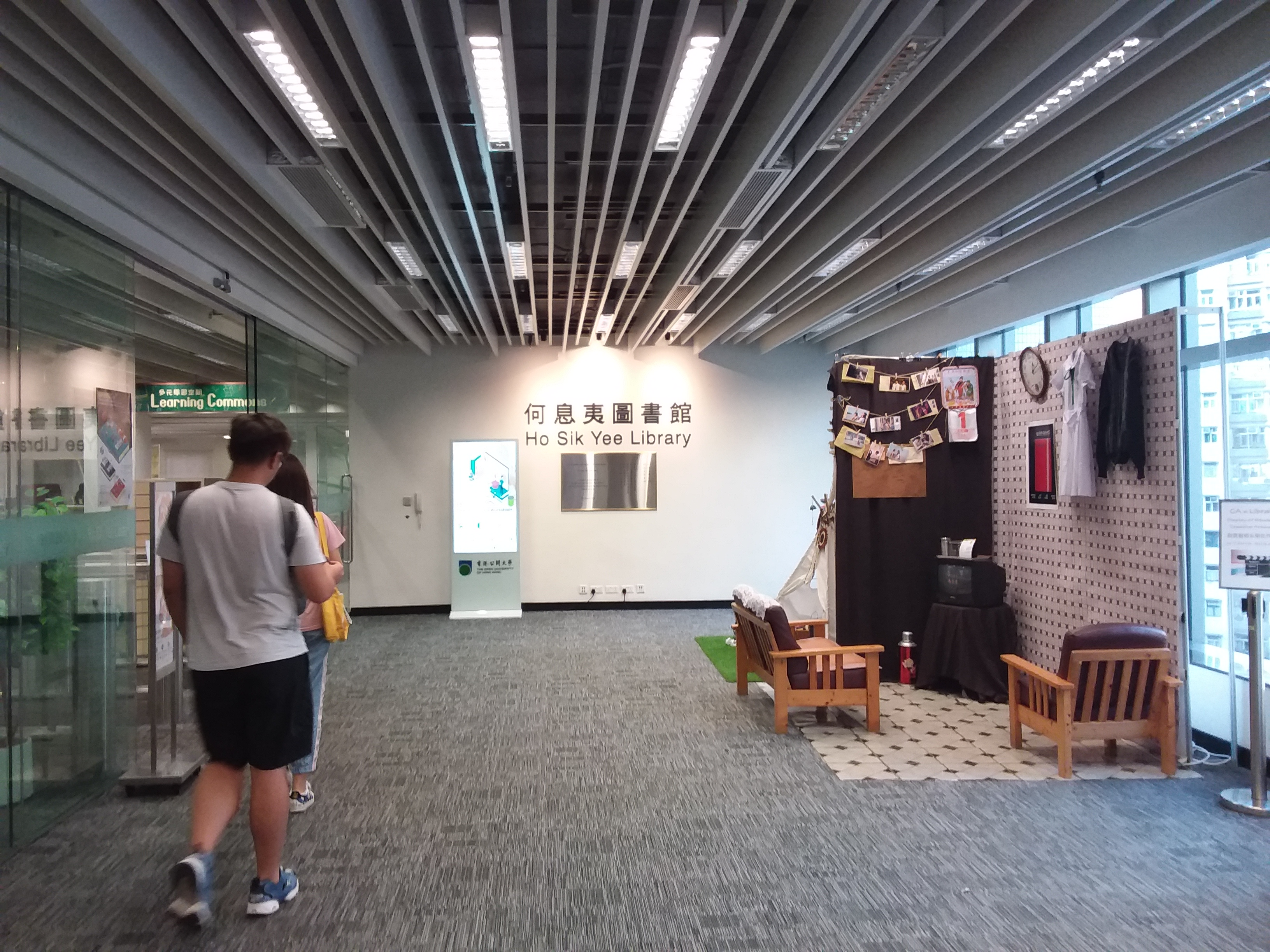 HK 何文田 Ho Man Tin 香港公開大學 OUHK Jockey Club Campus 忠孝街 Chung Hau Street in September 2019